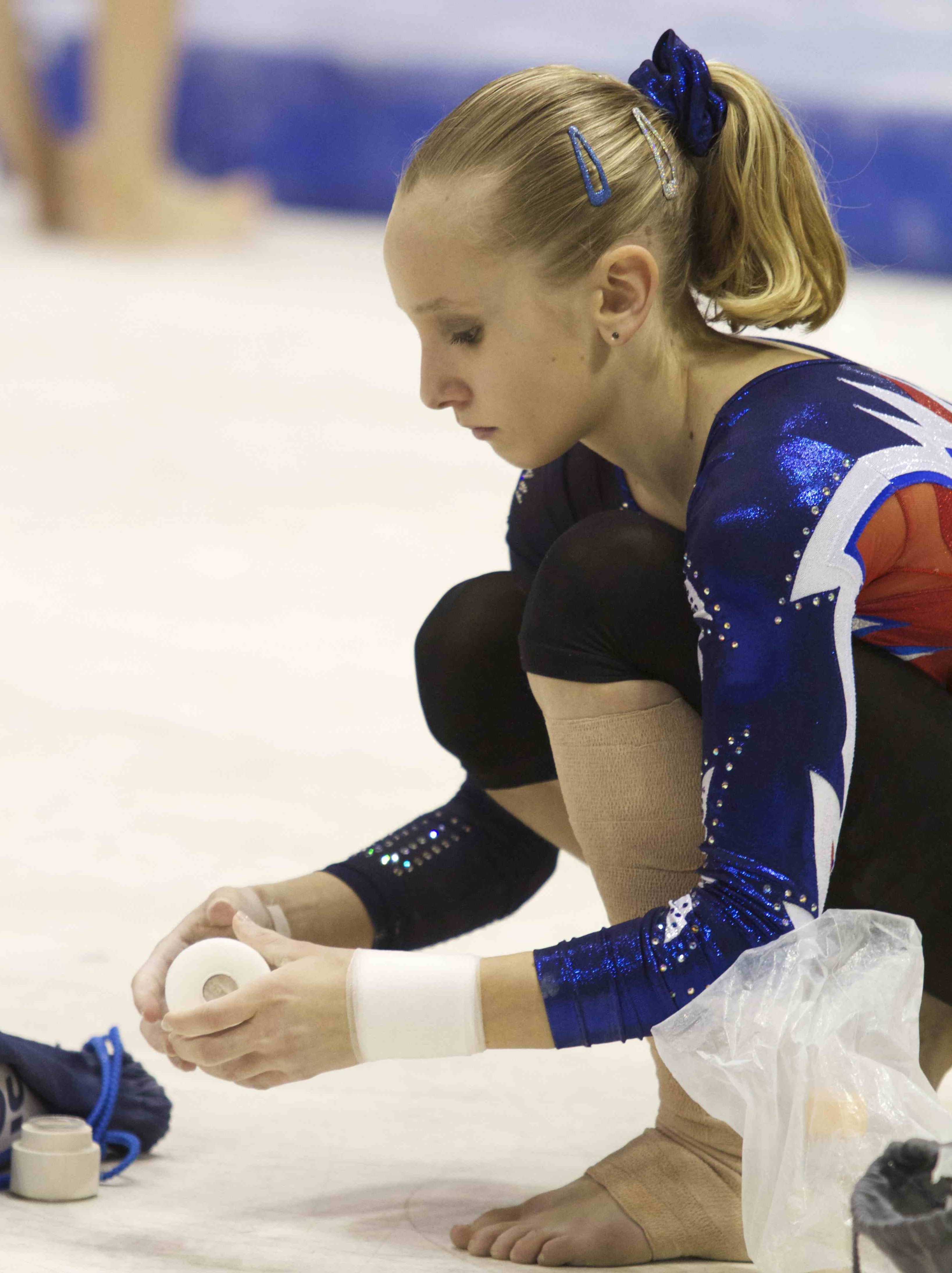 Tea Ugrin. Florence, 6th april 2013